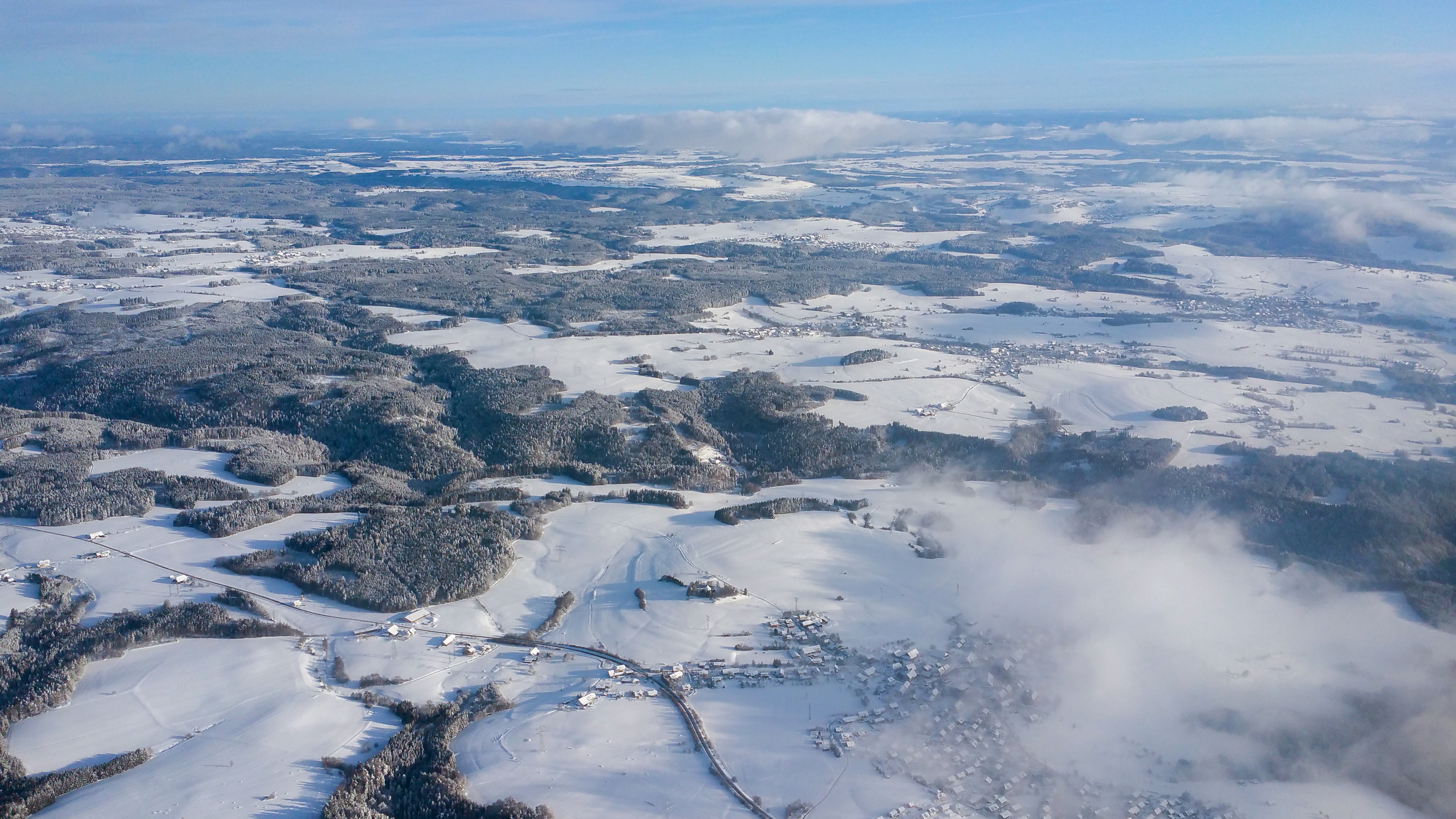 Germany, Baden-Württemberg, approach into ZRH across the Southern part of Black Forest